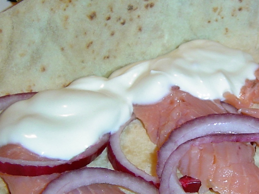 Rakfisk in lefse, with sour cream and red onion.